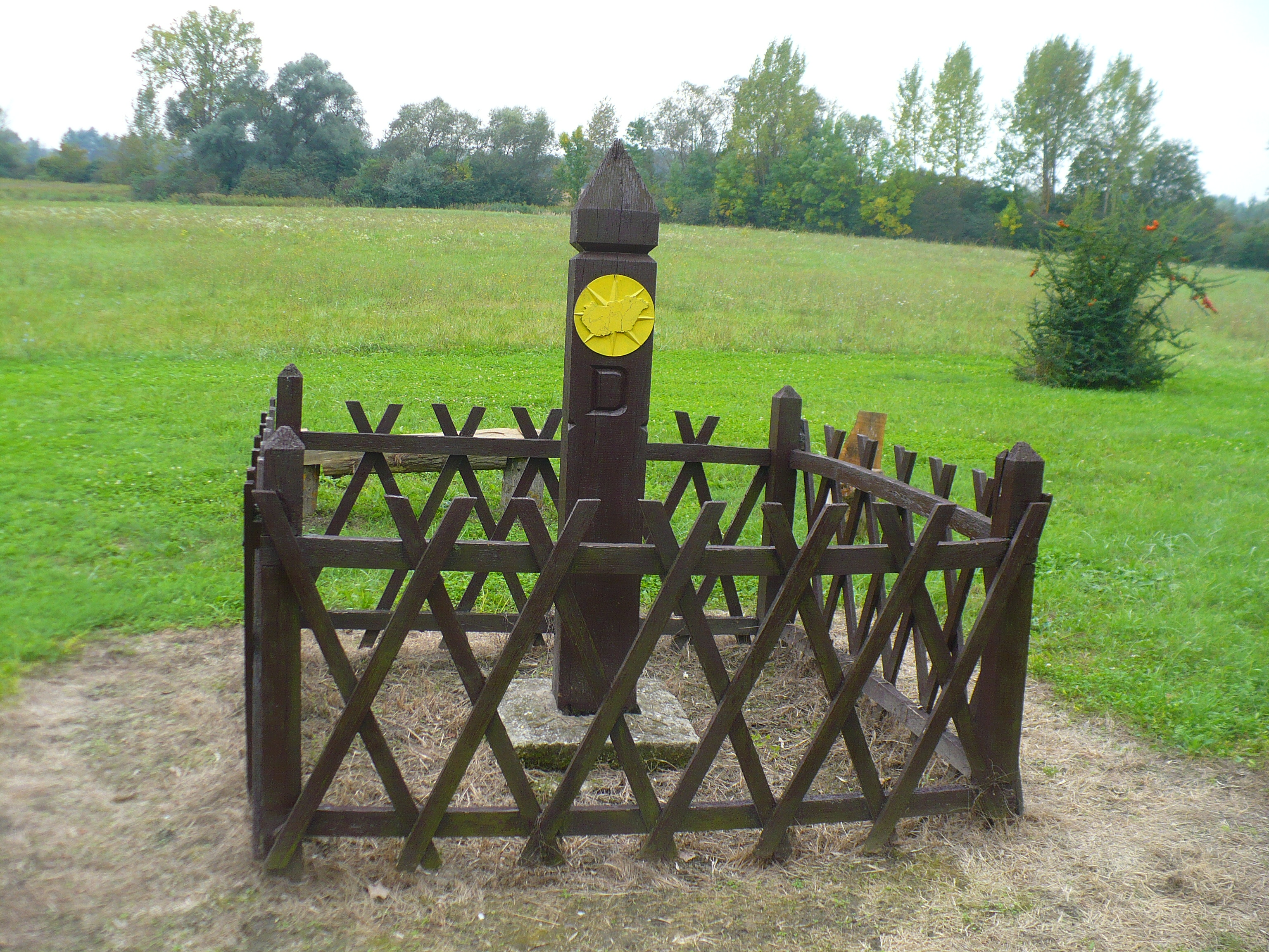 Sign indicating the most southern point of Hungary, which can be reached by roads.